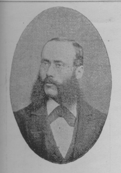 Picture of Israël Landry (1843–1910), a canadian publisher.